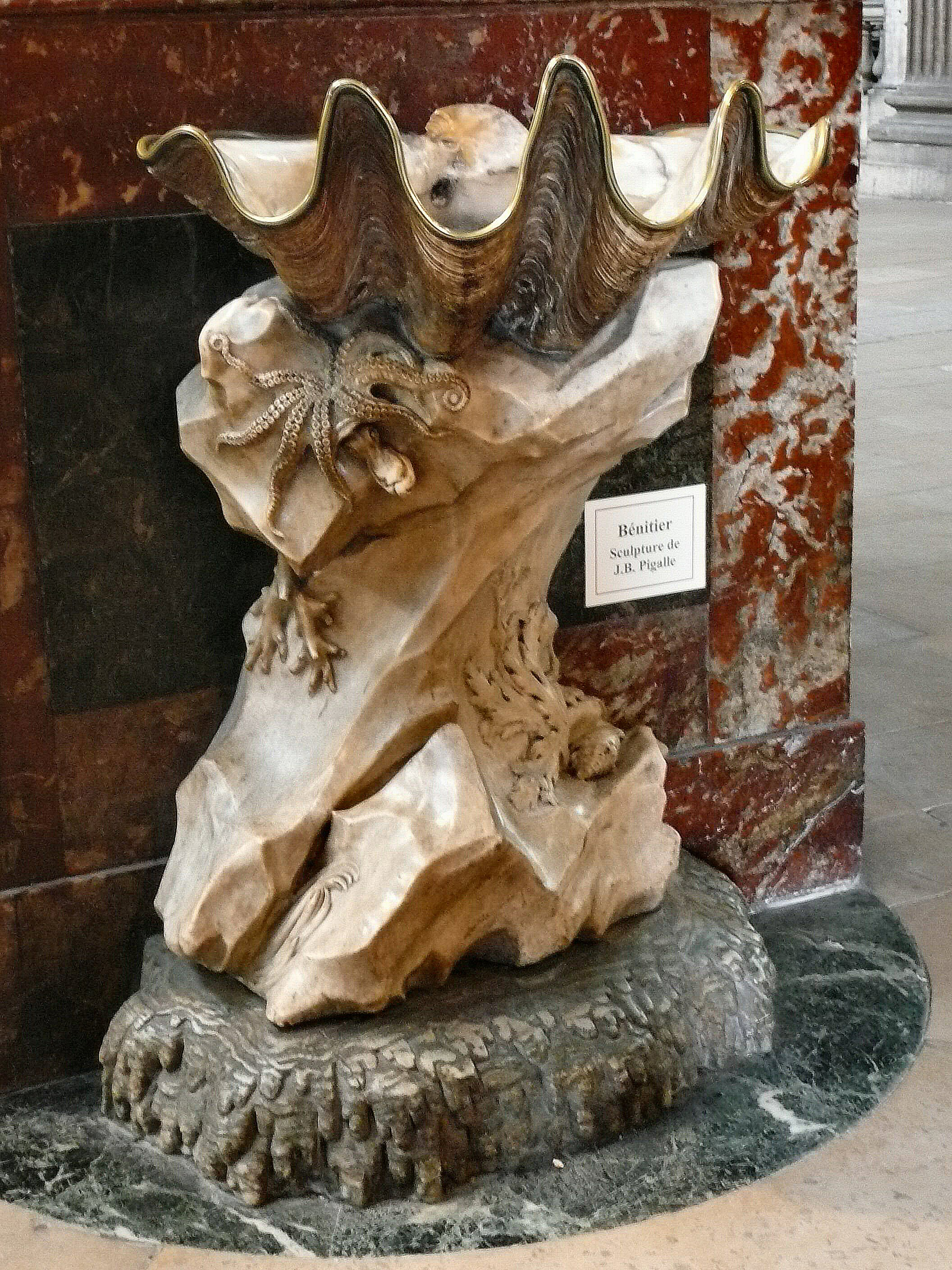 One of both Jean-Baptiste Pigalle's holy water fonts in the Roman Catholic church Saint-Sulpice in Paris